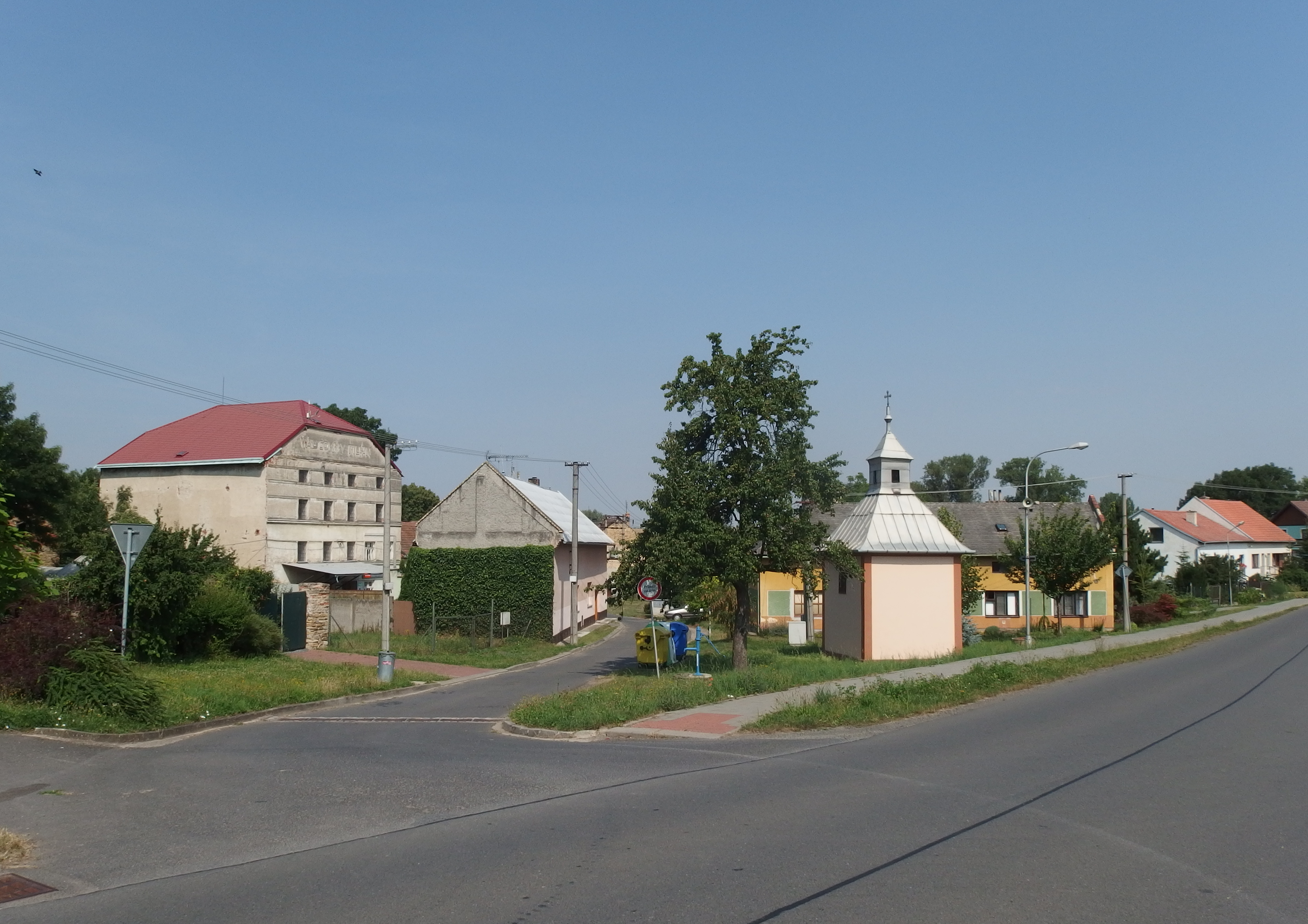 Kroměříž, Czech Republic, part Drahlov.